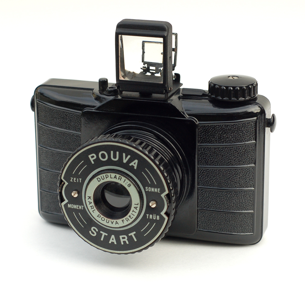 This was the first model of the Pouva Start, manufactured beginning 1951. I love the viewfinder on this model. Imagine a TTV contraption for it! The "Hamaphot" P56L is a close cousin of the Start.